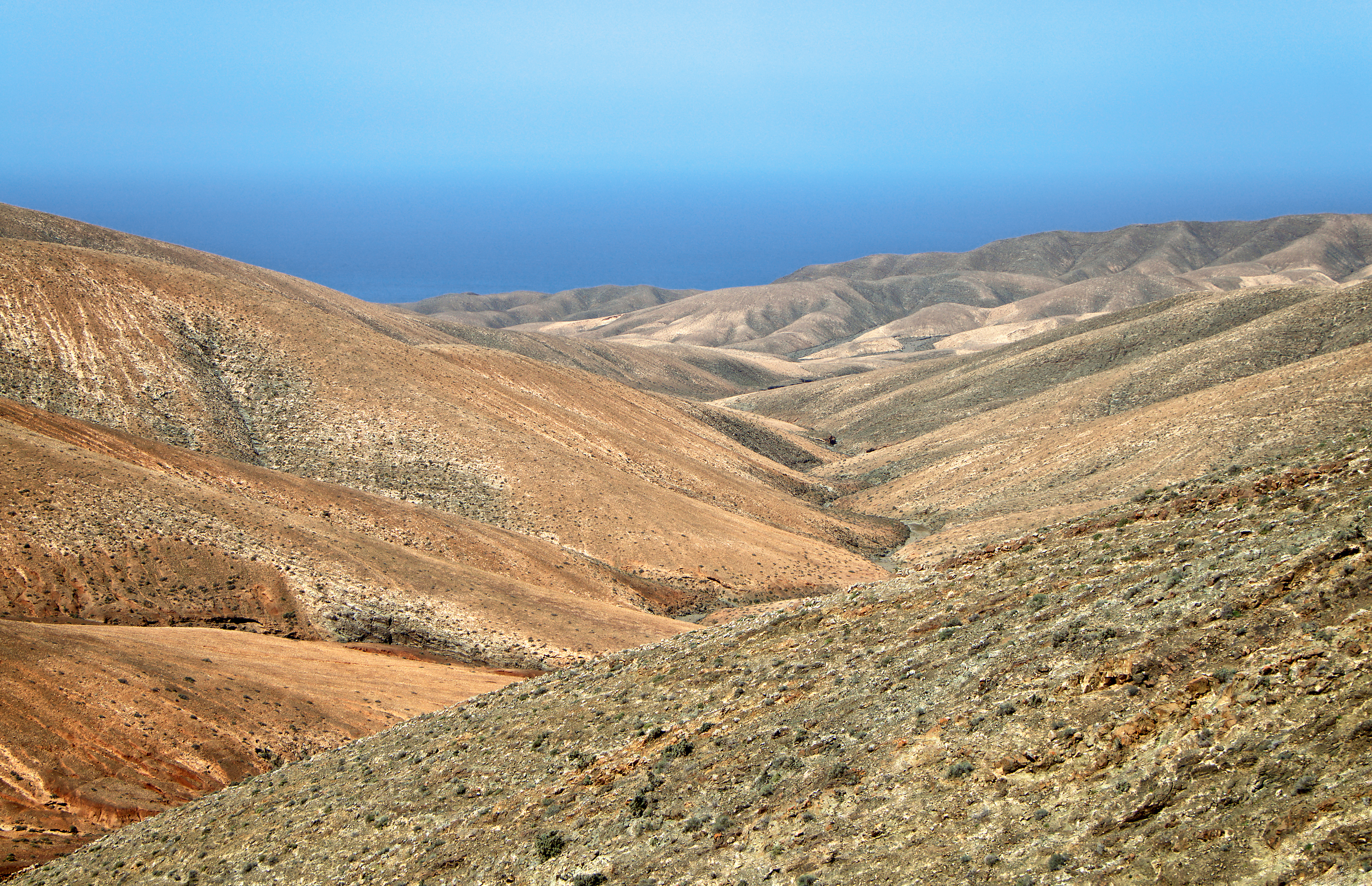 Barranco Valle de la Fuente, Pájara, Fuerteventura, view from east.